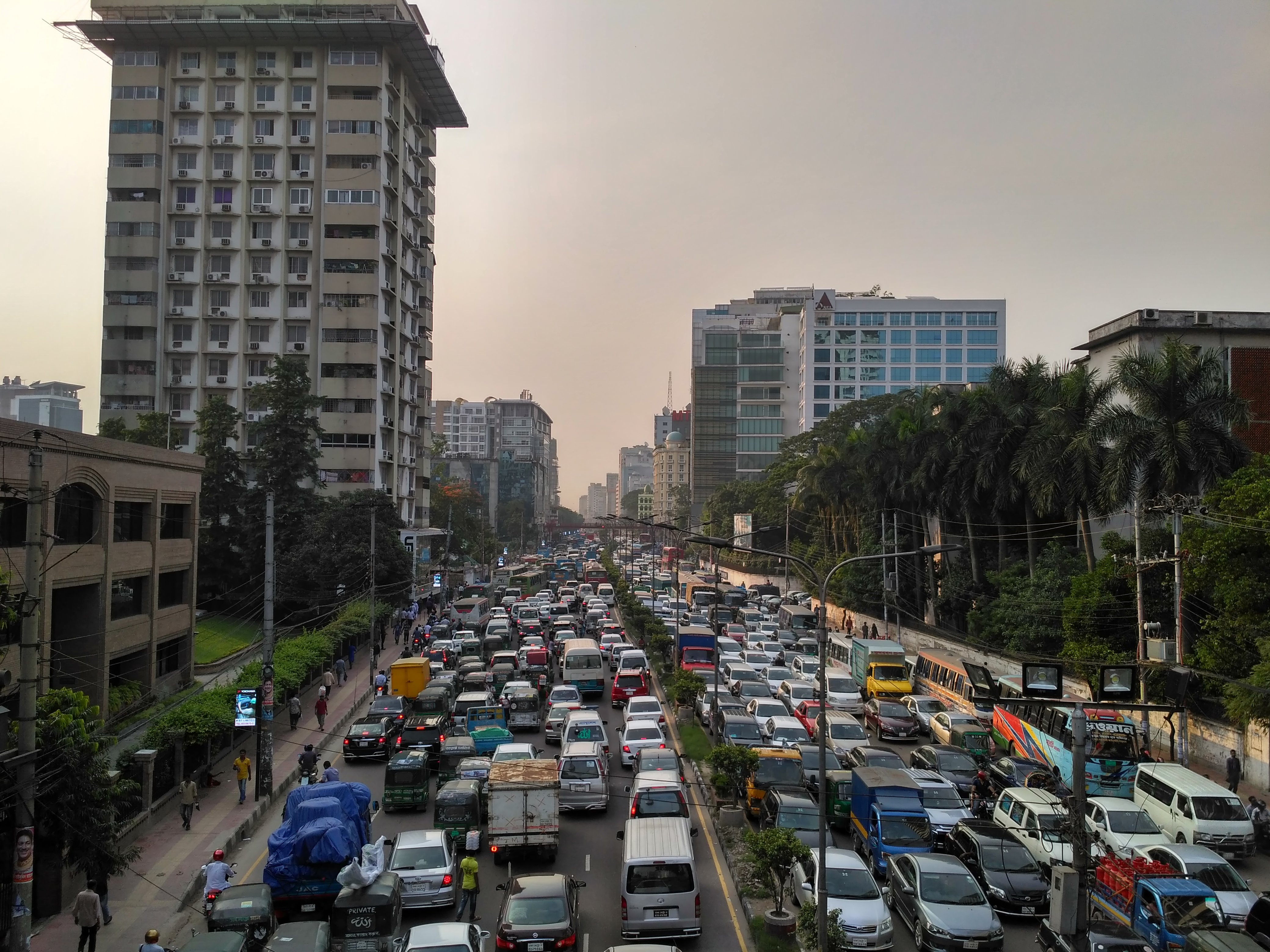 A North side view of Kazi Nazrul Islam Ave Road from Paribag foot over bridge, Dhaka.